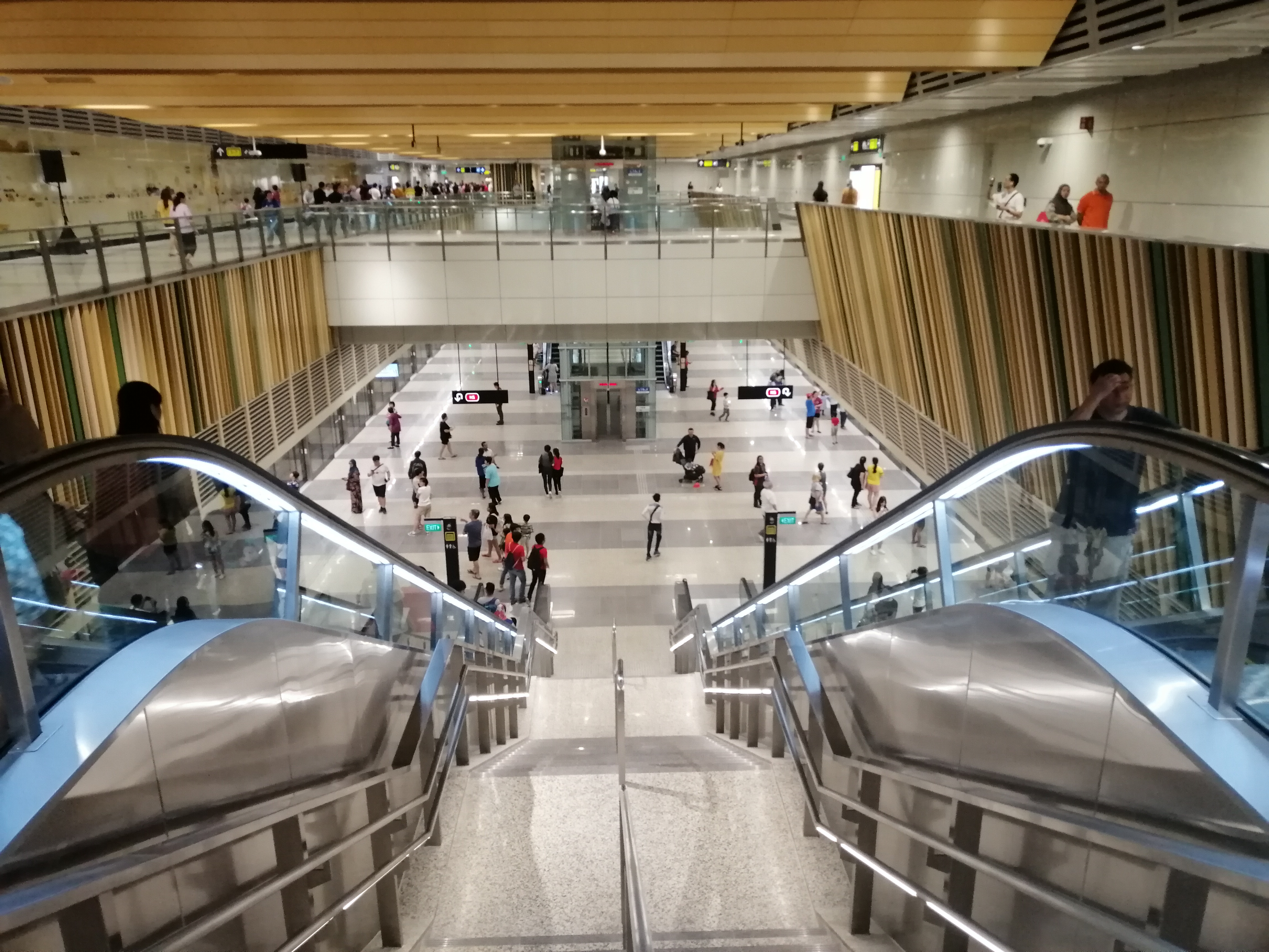 Thomson-East Coast Line platforms of Woodlands MRT Station.